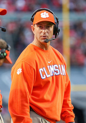 Dabo Swinney, coaching the Clemson Tigers during a football game on October 31, 2015 against the NC State Wolfpack. This file has been extracted from another file: Dabo Swinney.jpg